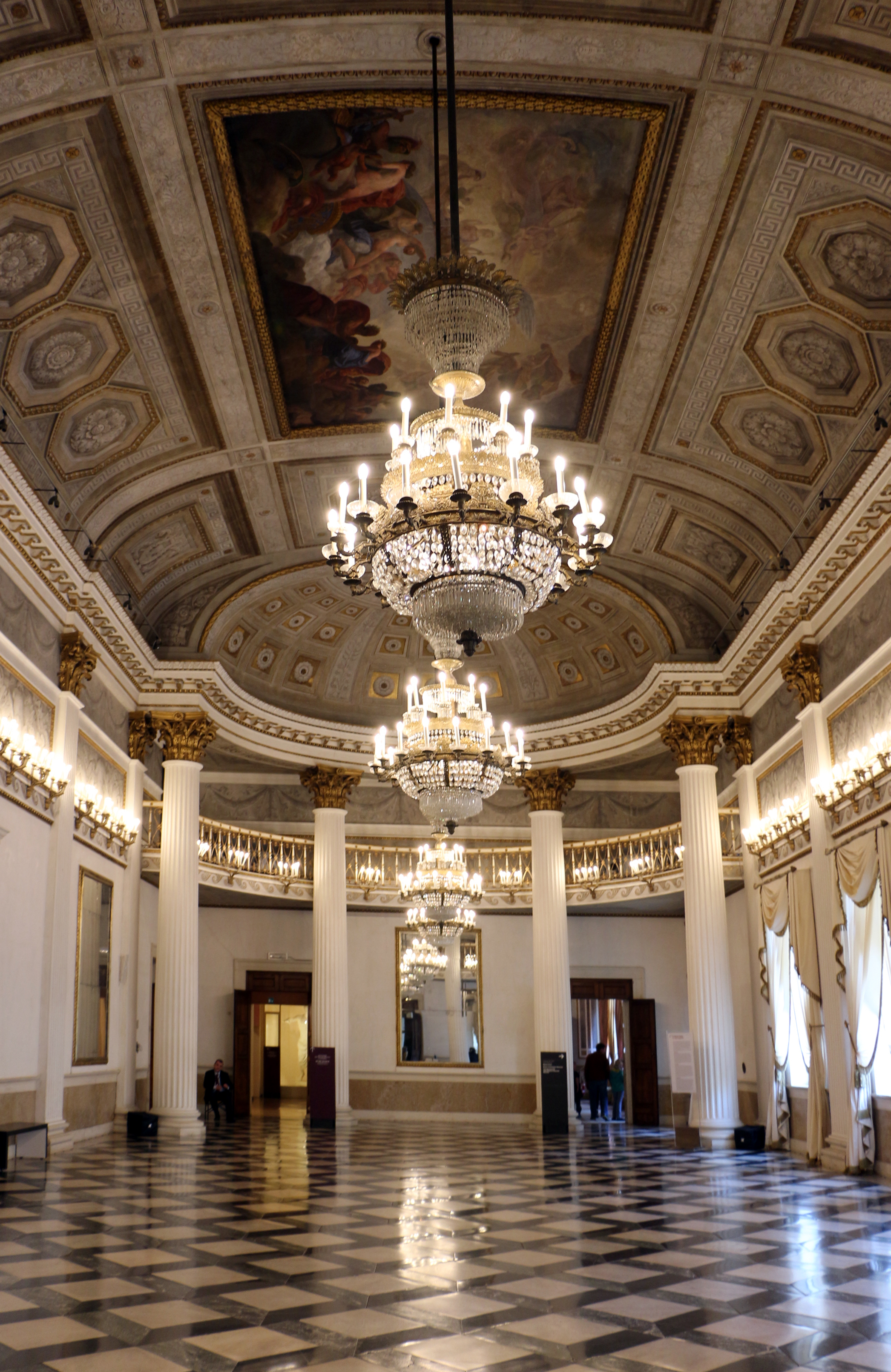 Museo Correr (Venice)